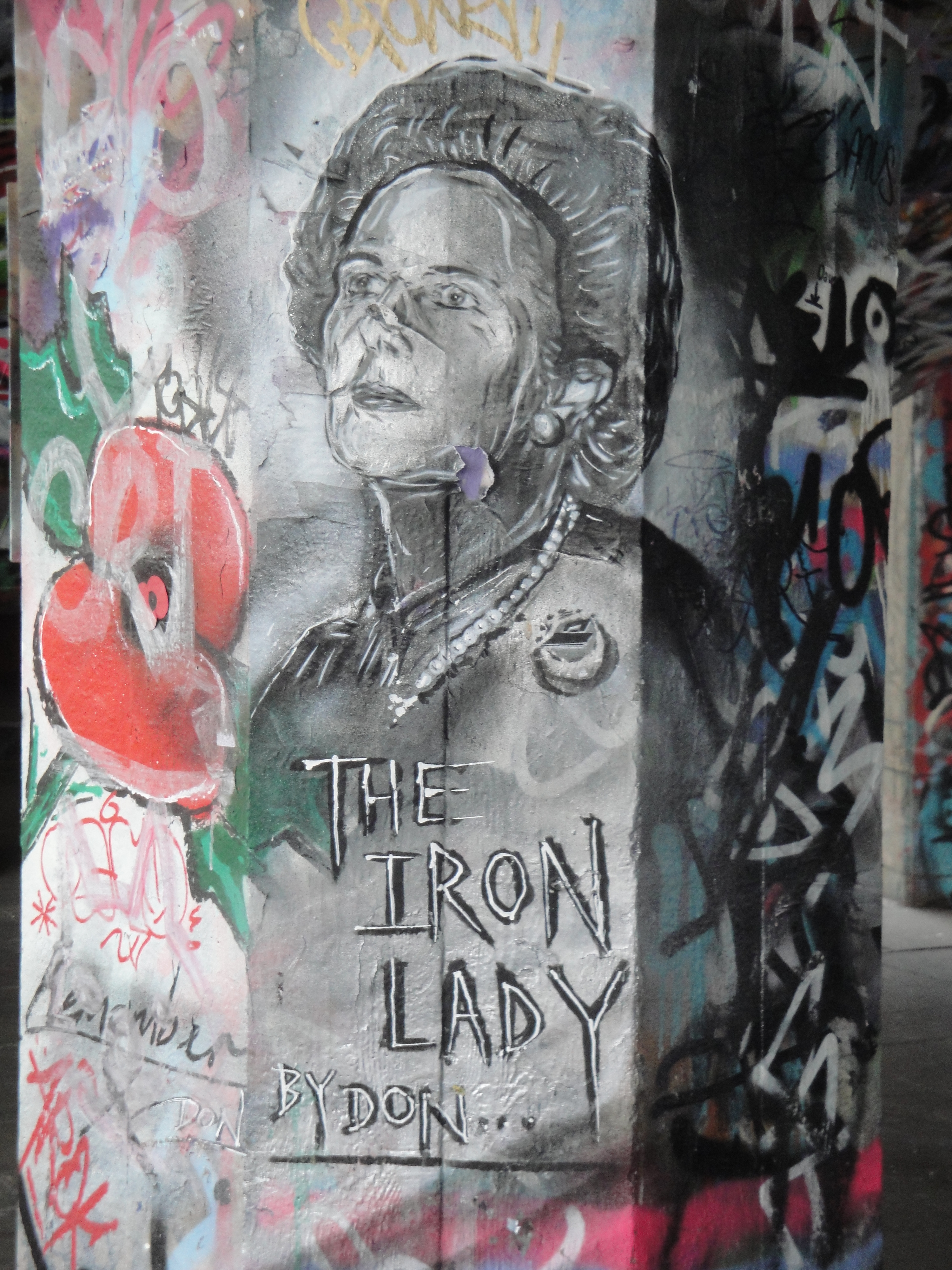 Graffiti art under the Southbank Centre, Lambeth (borough), London.